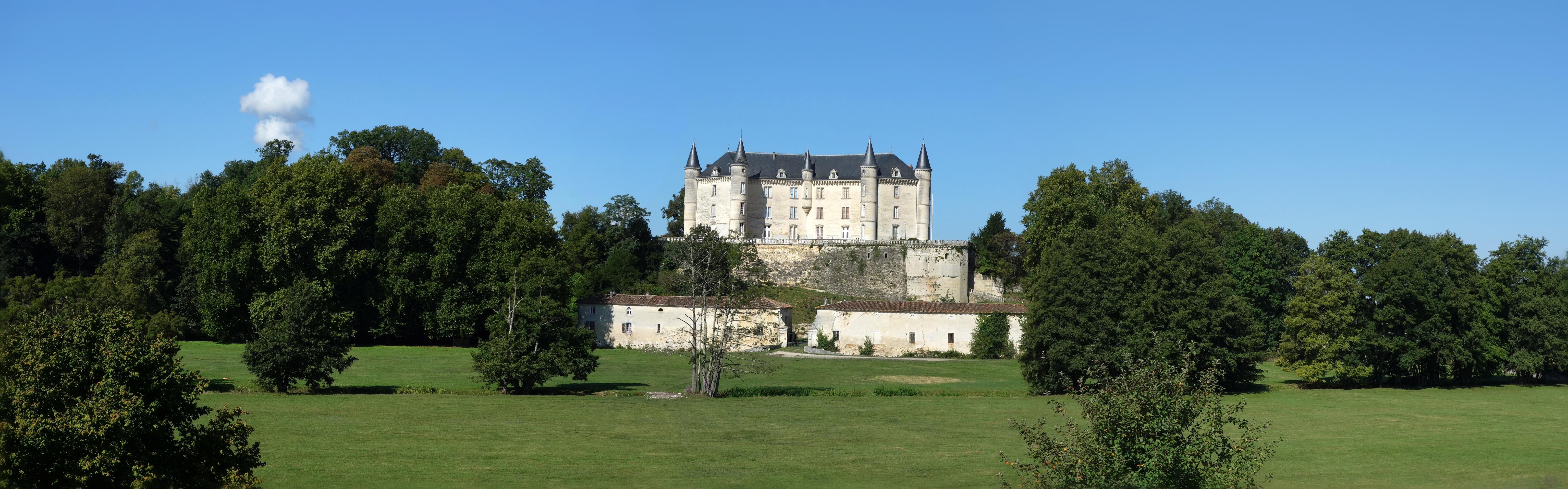 A view of the castle of Rochandry near Mouthiers sur Boëme (Charente - France - 2015, September)